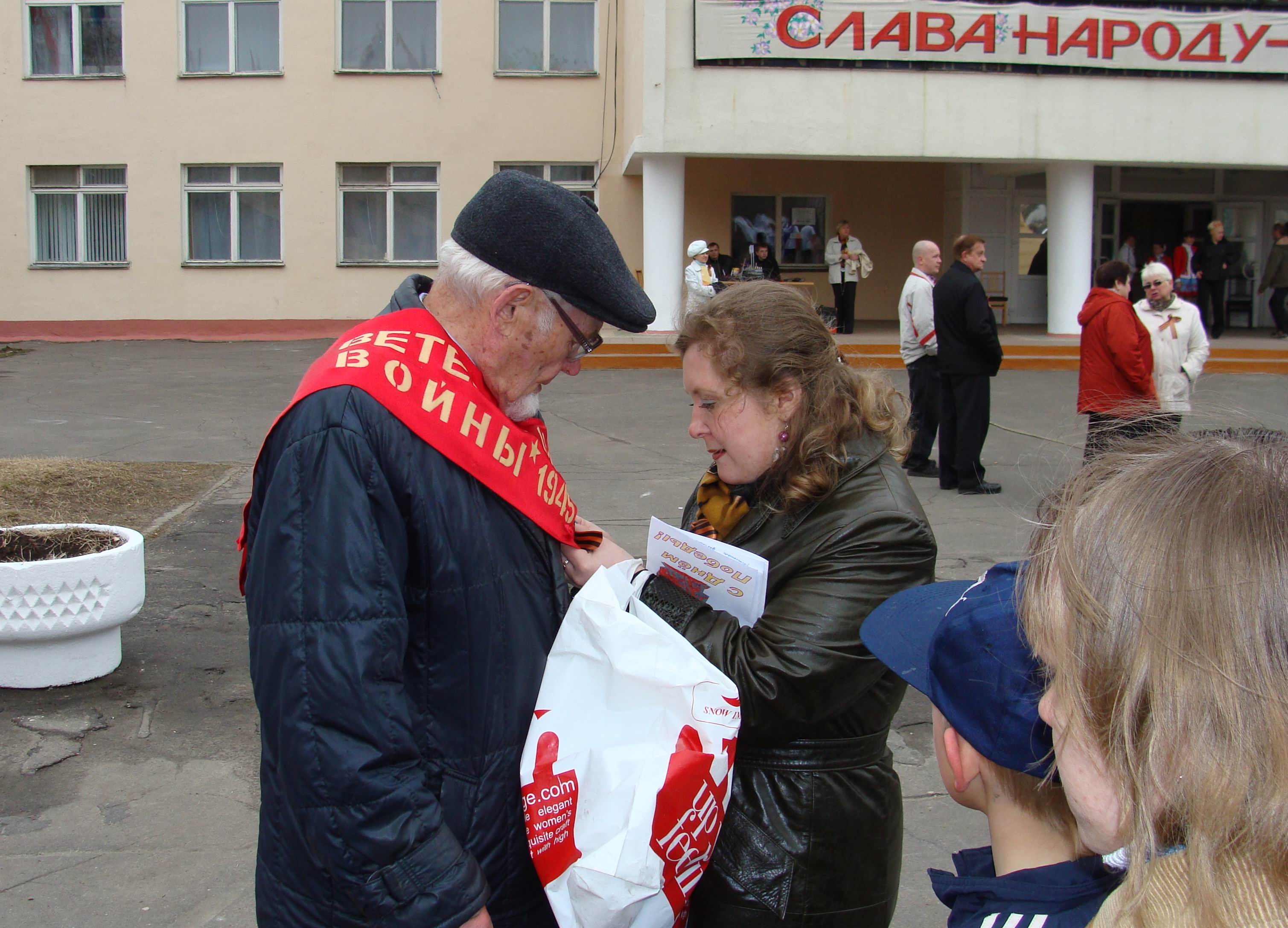 Victory Day (Russia)